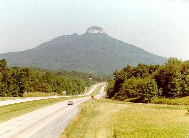 I took this photo of Pilot Mountain, NC, on June 11, 1989.